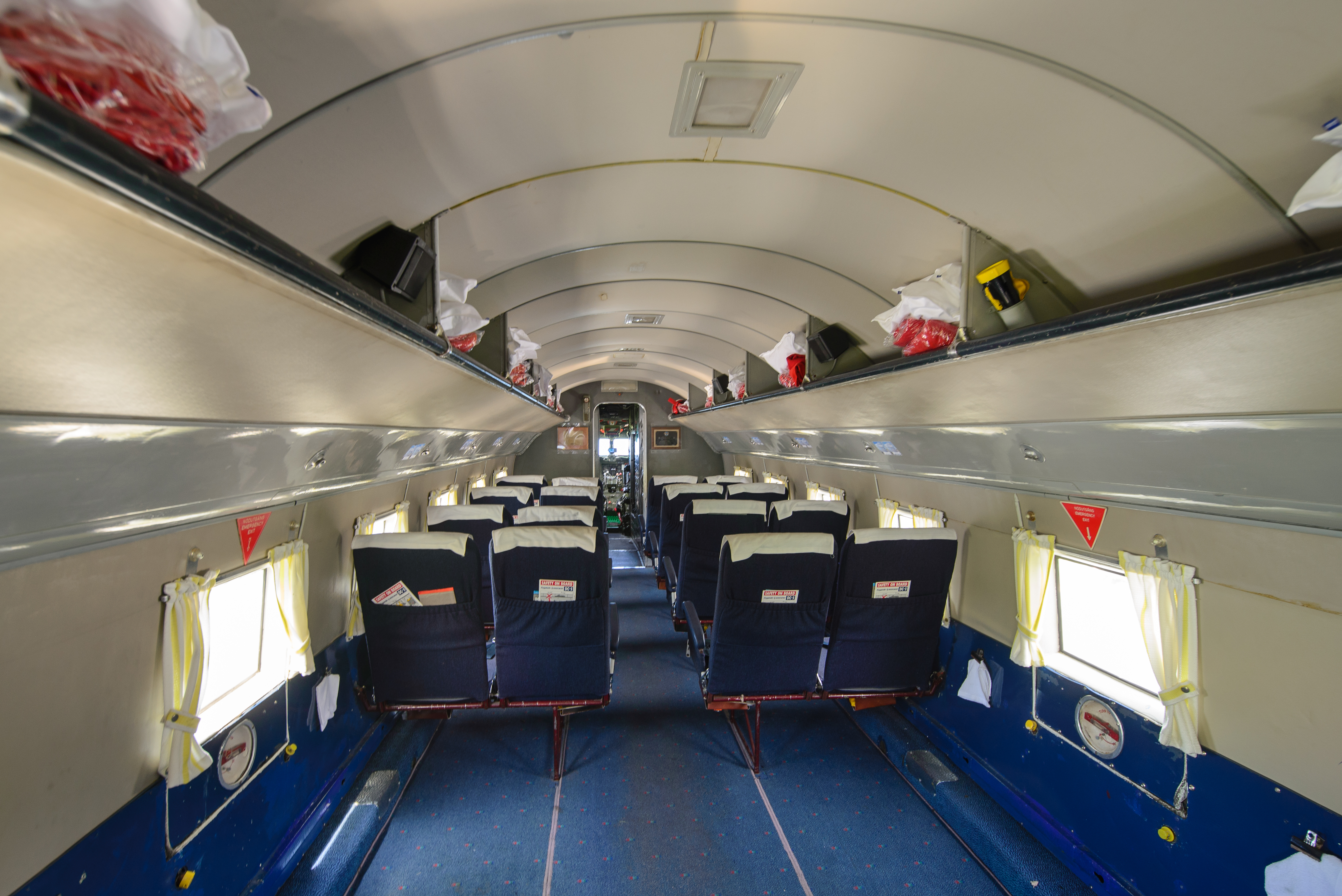 DC3 (SE-CFP) at Skå airfield, Stockholm County.